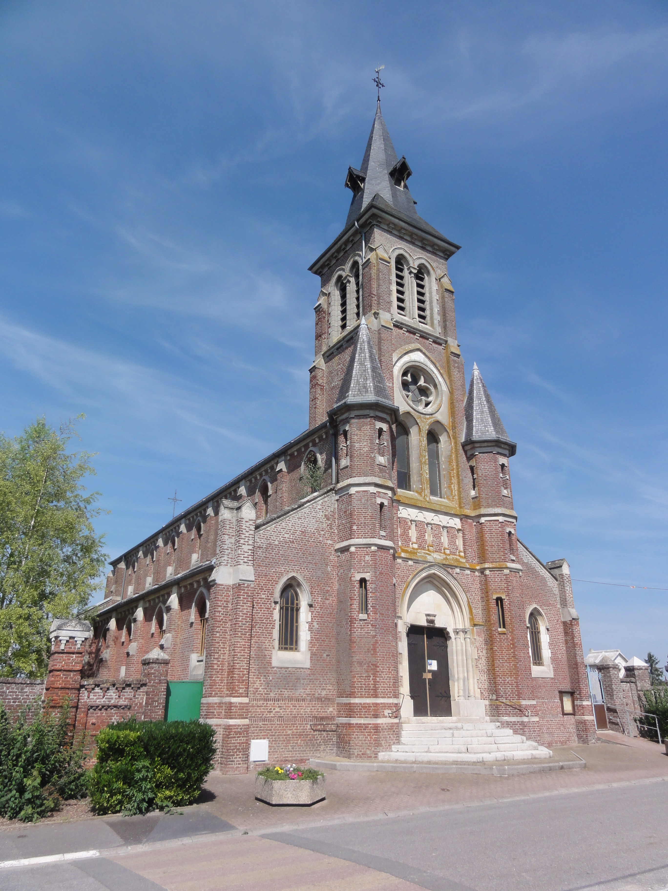 Mont-d'Origny (Aisne) église